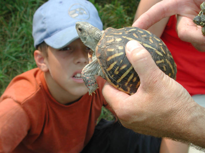 Cub scout with Eastern box turtle